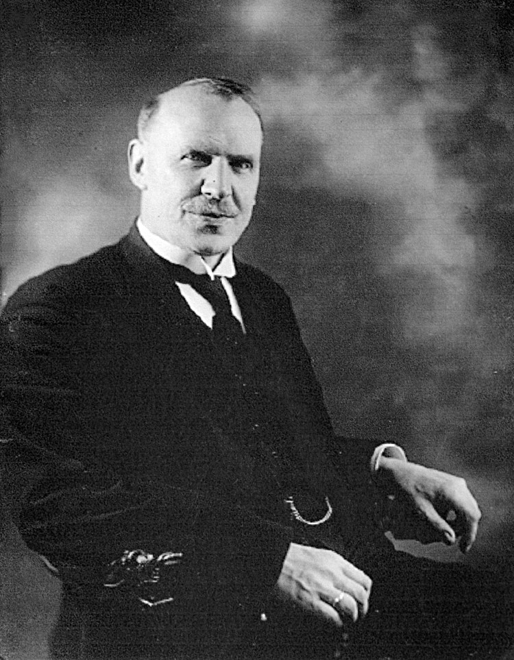 Image of the composer Sigurd Islandsmoen